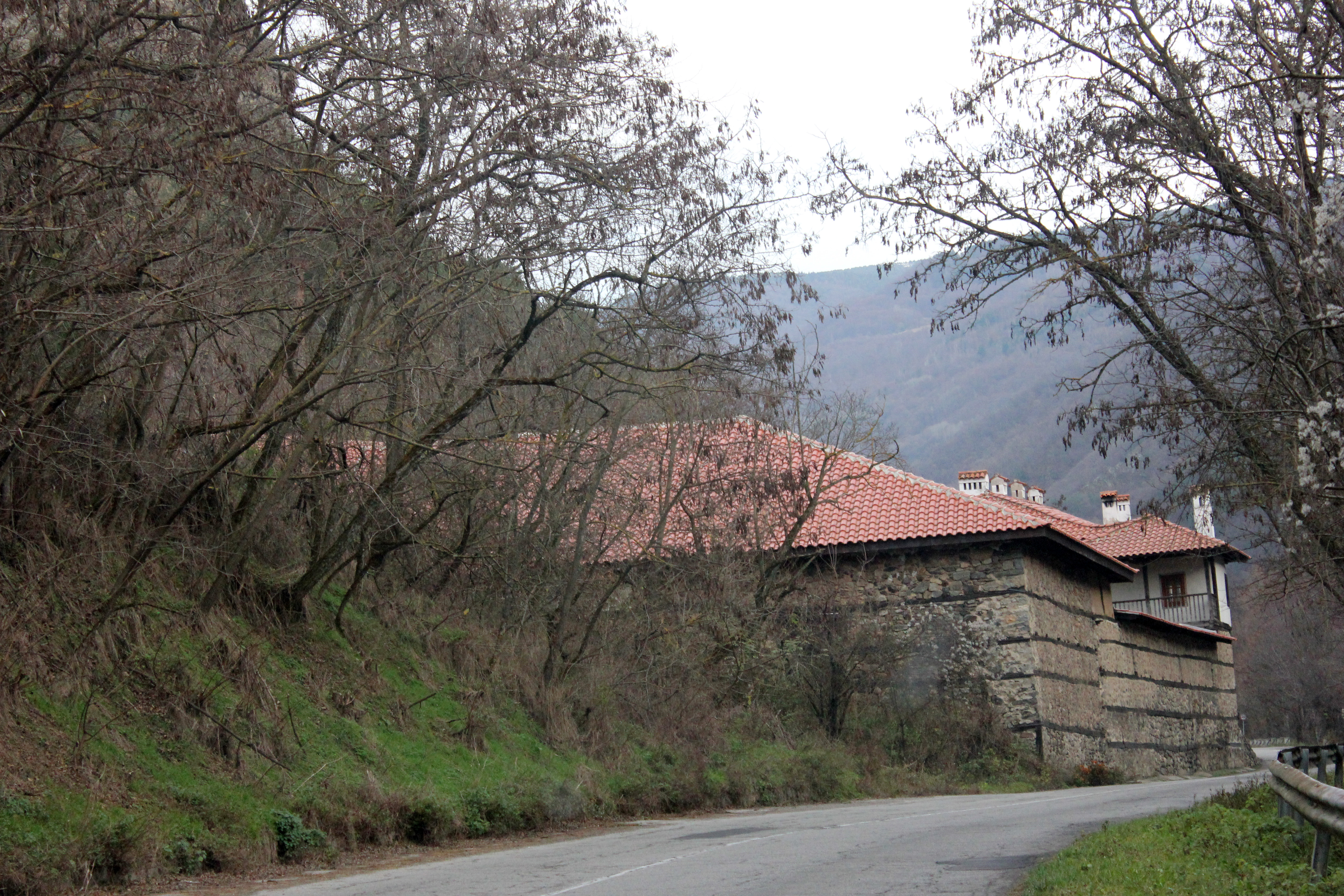 Orlitsa nunnery near Rila town in Bulgaria